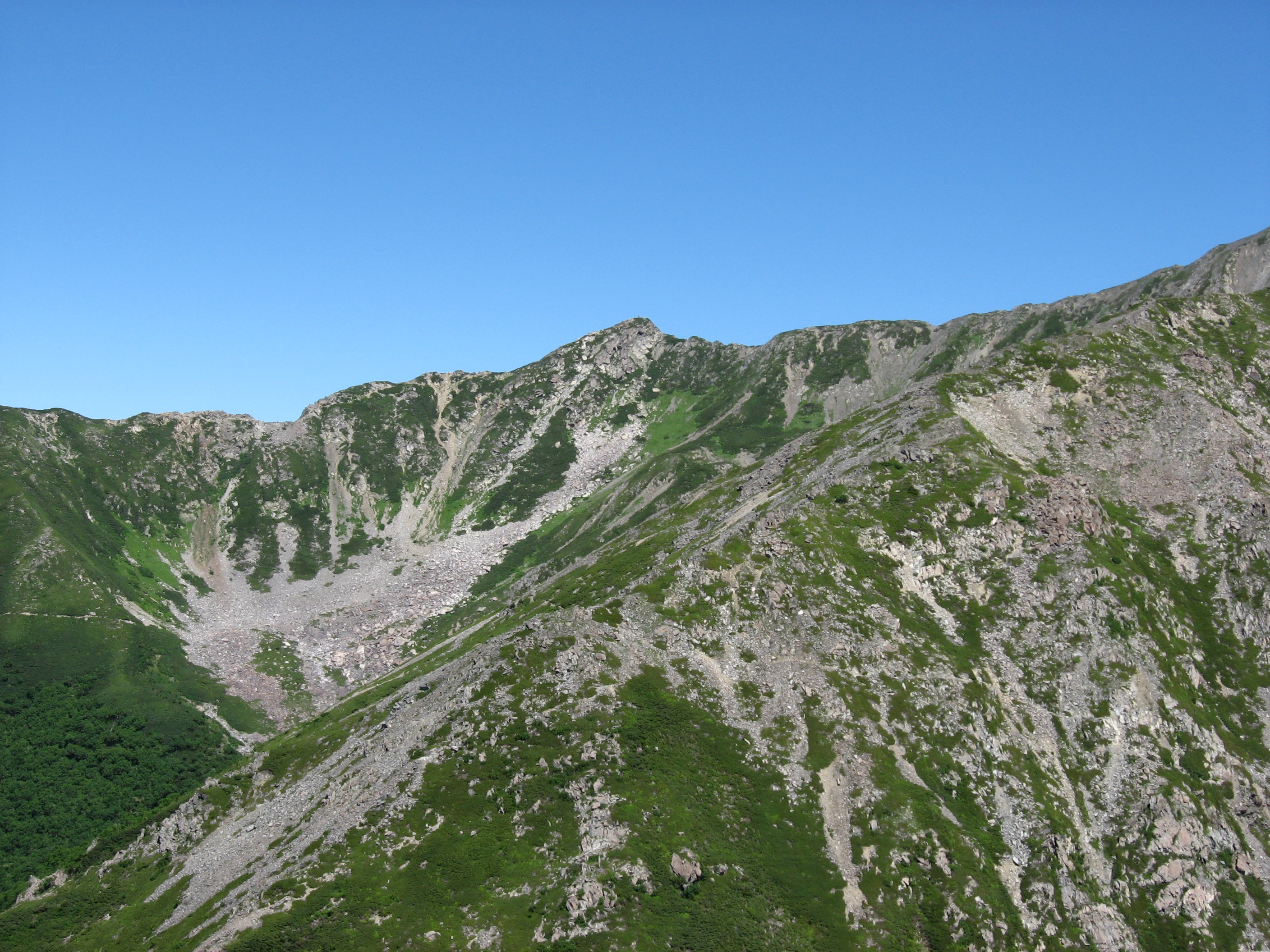 Mt.Mibudake (Mibu-dake) as seen from Nōtori-hut (Nōtori-goya), Mts.Akaishi, Japan.